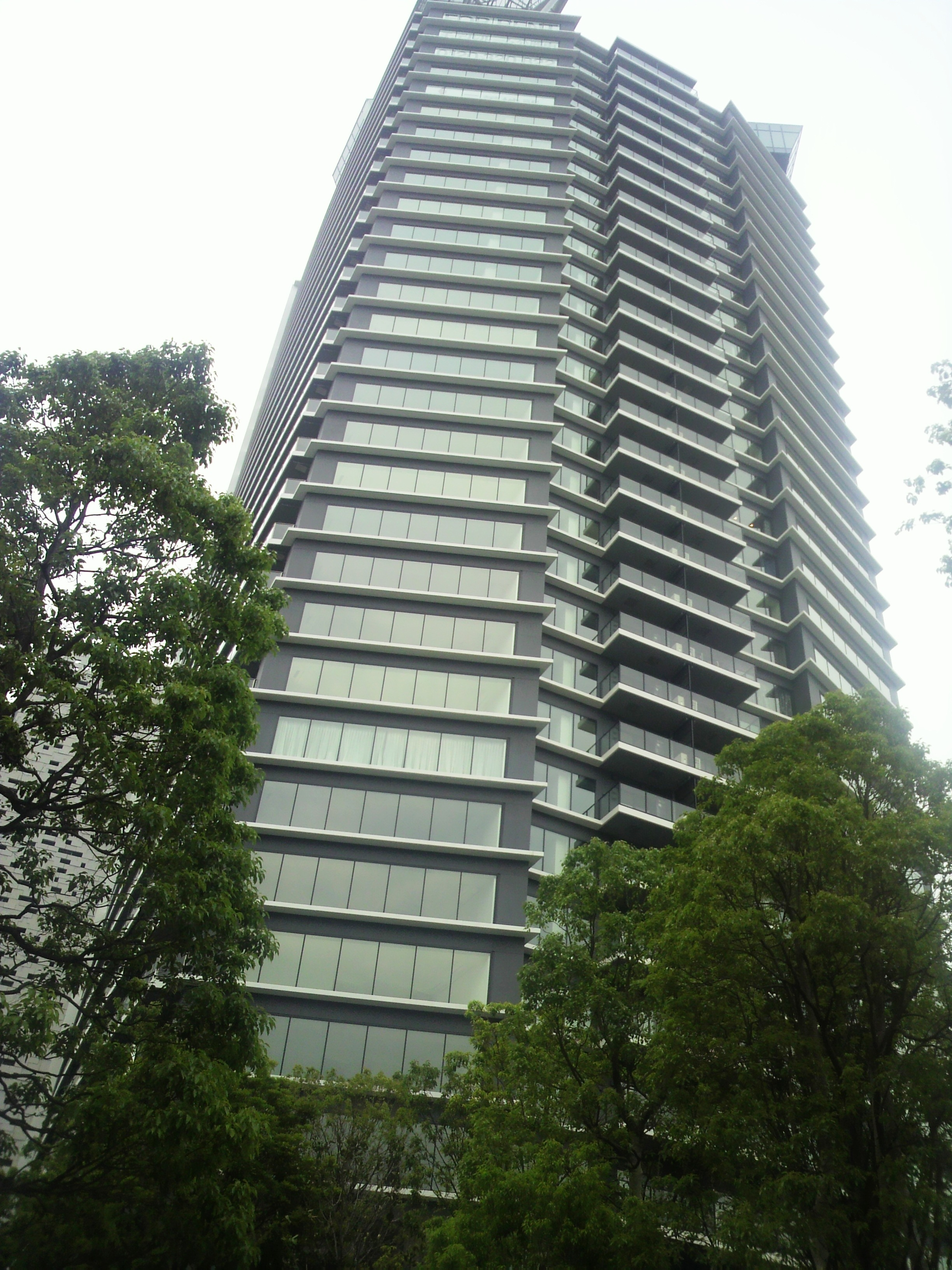 Park Habio Shinjuku, Higashi-Shinjuku Date: June 02, 2012